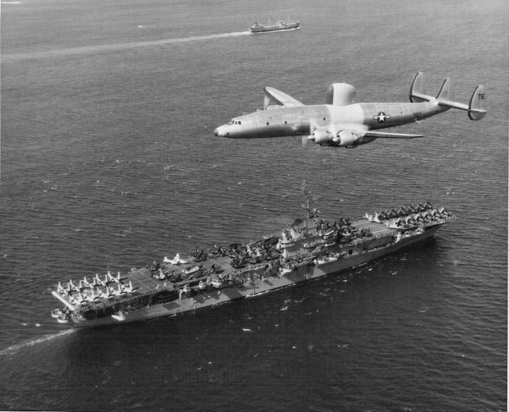 A U.S. Navy Lockheed WV-2 Warning Star of early warning squadron VW-1 flies over the Essex-class aircraft carrier USS Oriskany (CVA-34) off Barbers Point, Oahu, Hawaii (USA), on 16 April 1954.